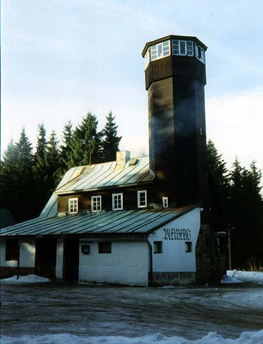 Restaurant with the view-tower on top of hill "Olověný vrch".